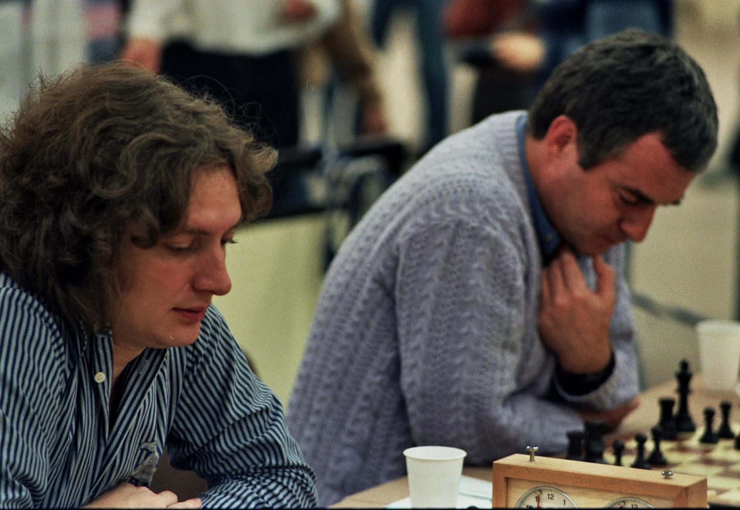 Jan Timman and Gennadi Sosonko, Chess Olympiad 1984 in Saloniki, Photographer Gerhard Hund.